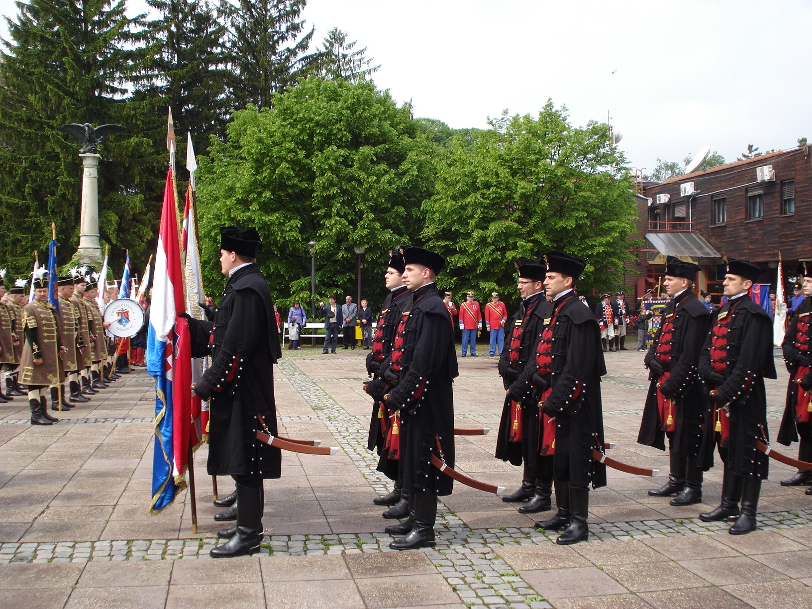 Zrinski guard - historical military unit from Čakovec, northern Croatia (16th century), at Republic Square